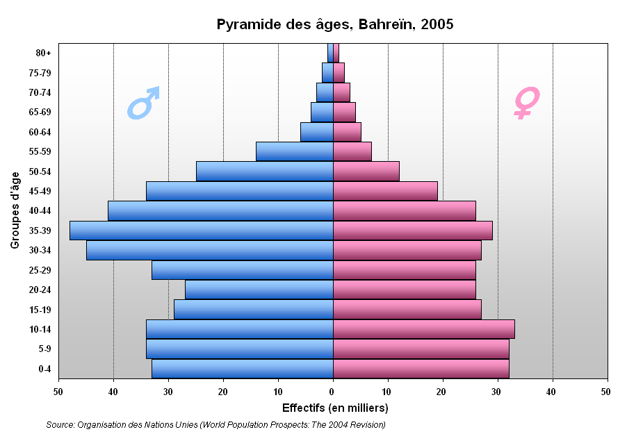 Bahrain Population pyramid, 2005